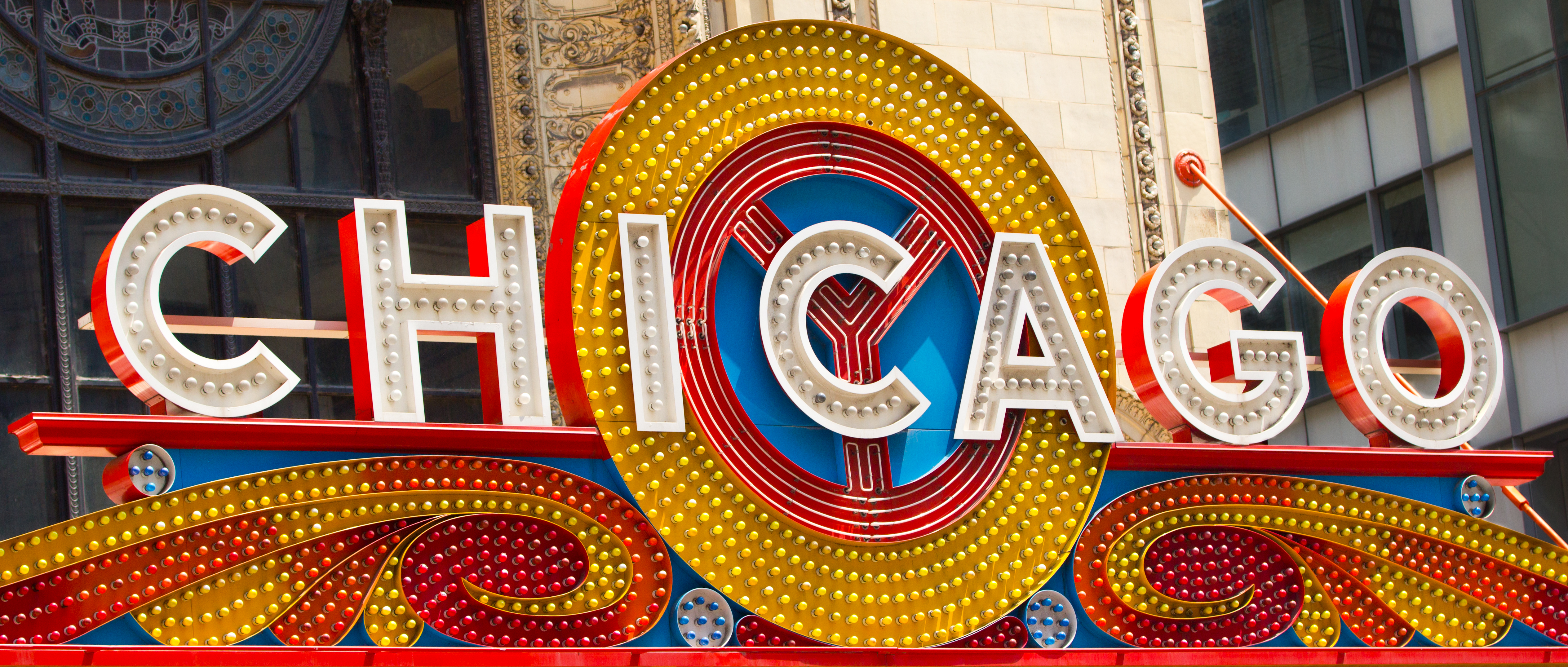 Chicago Theatre sign Close up June 2012 Balaban and Katz Chicago Theatre